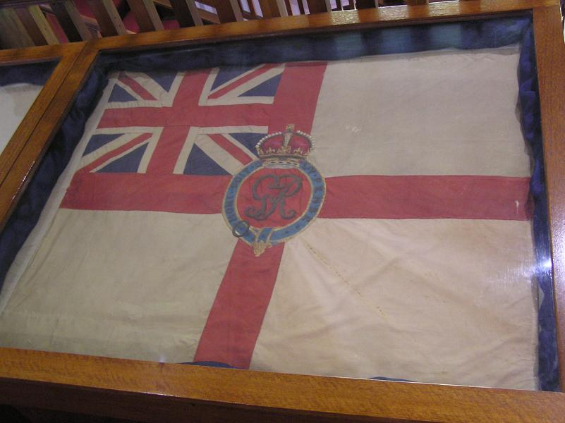 Monarch's Colours (Standard) received by the Royal Australian Navy from George V of the United Kingdom. Laid up in the Naval Chapel on 5 December 1937. I took this picture. Peter Ellis 07:39, 12 November 2006 (UTC)